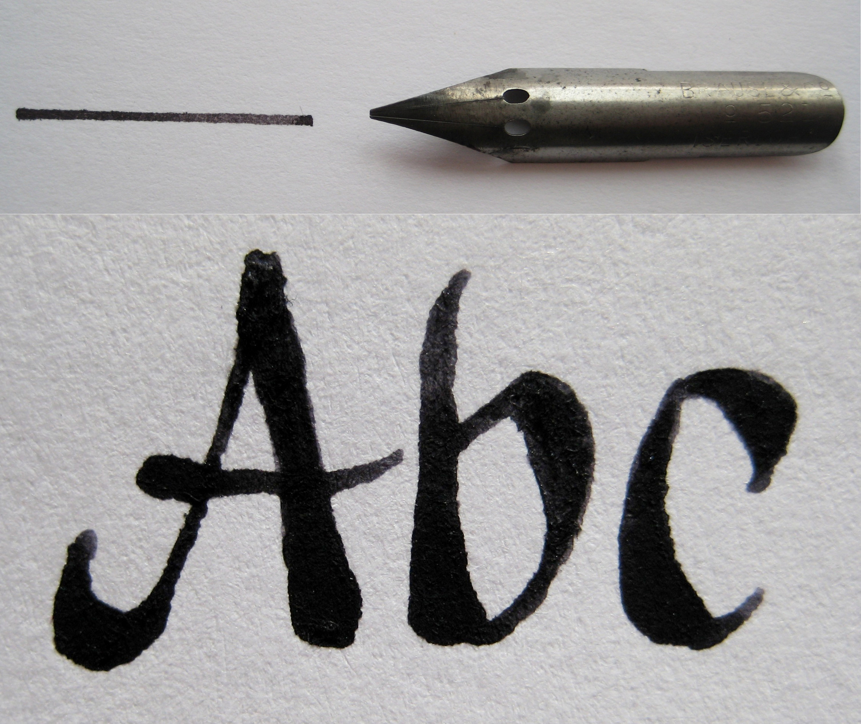 Music nib with a stroke and writing sample